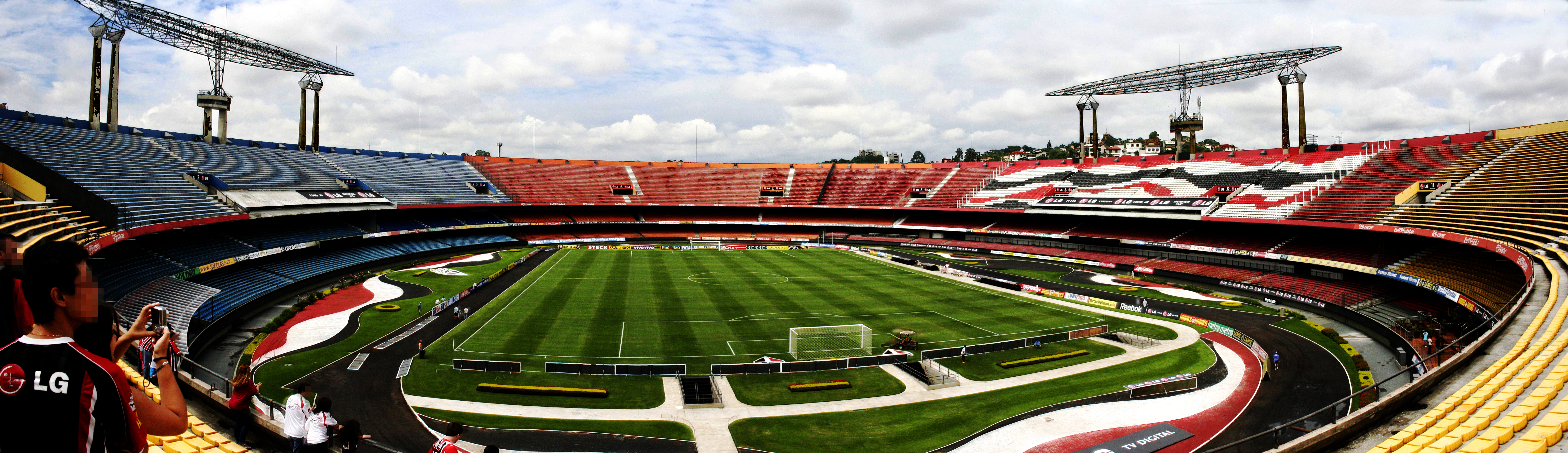 panoramic photo of the Cícero Pompeu de Toledo stadium, known as Morumbi.